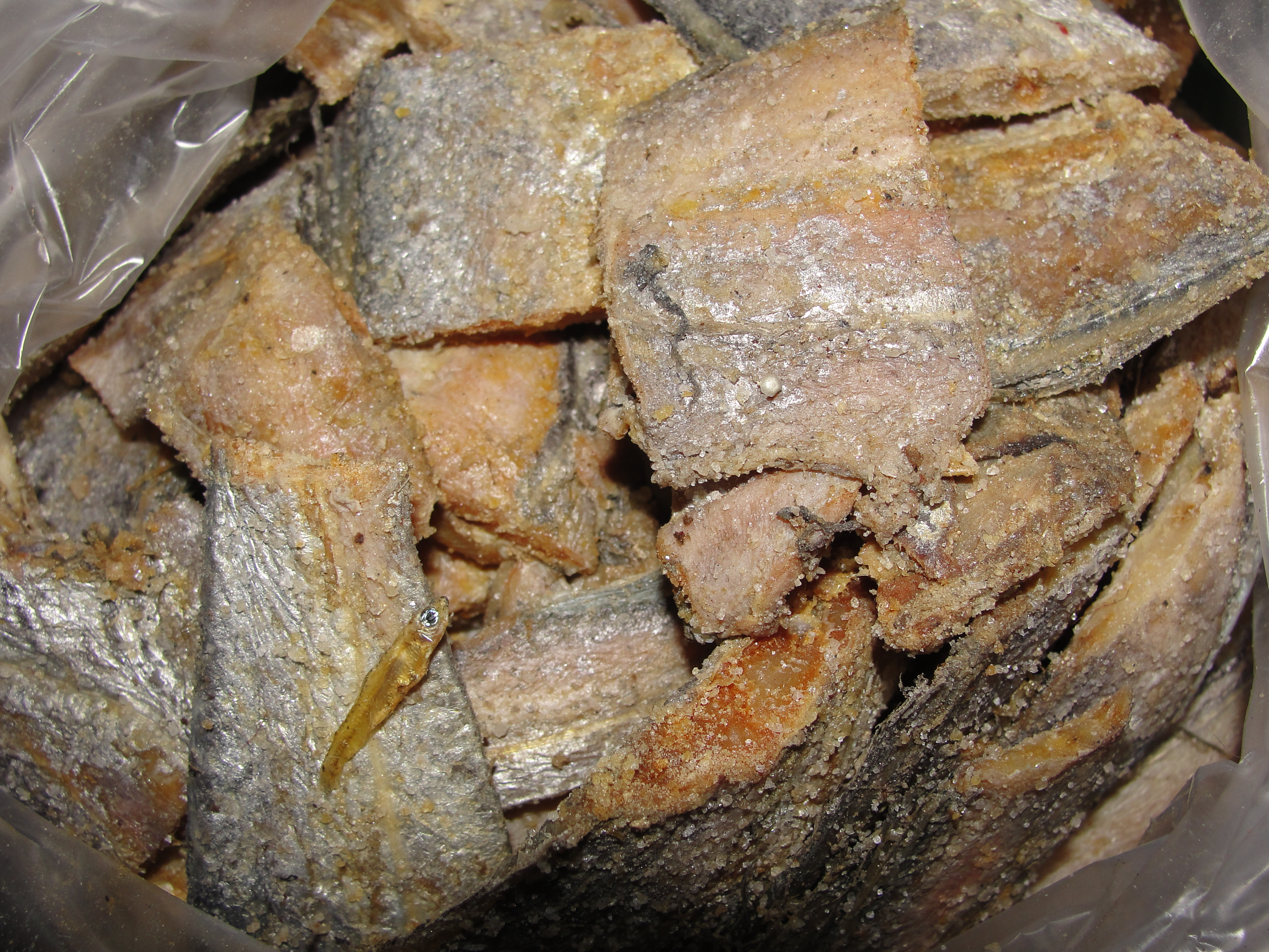 A view of dried fish. This is one of the traditional food of Tamils.Unknown உப்புக்கண்டம்